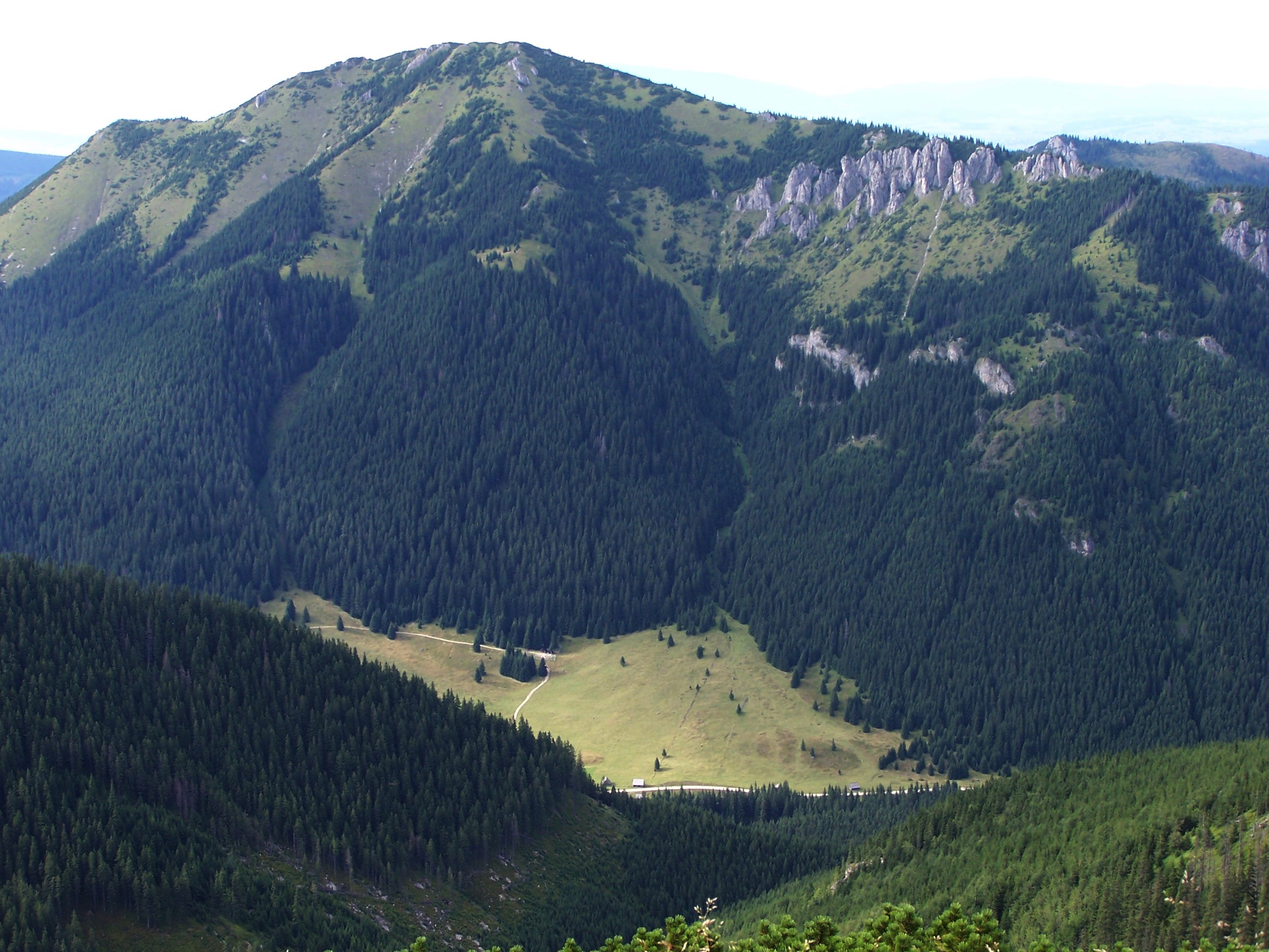 Bobrowiec (West Tatra Mountains)